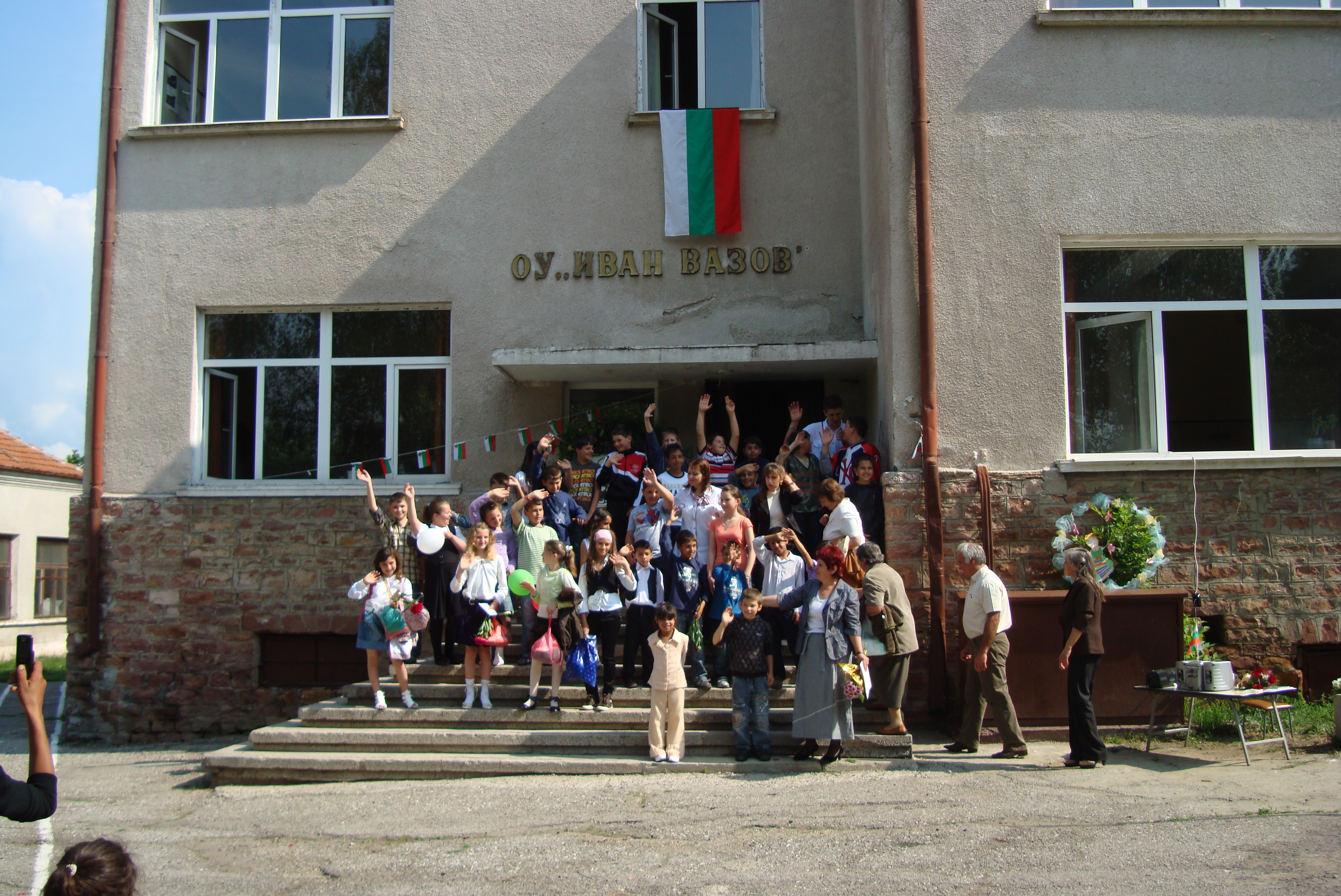 Primary school "Ivan Vazov"